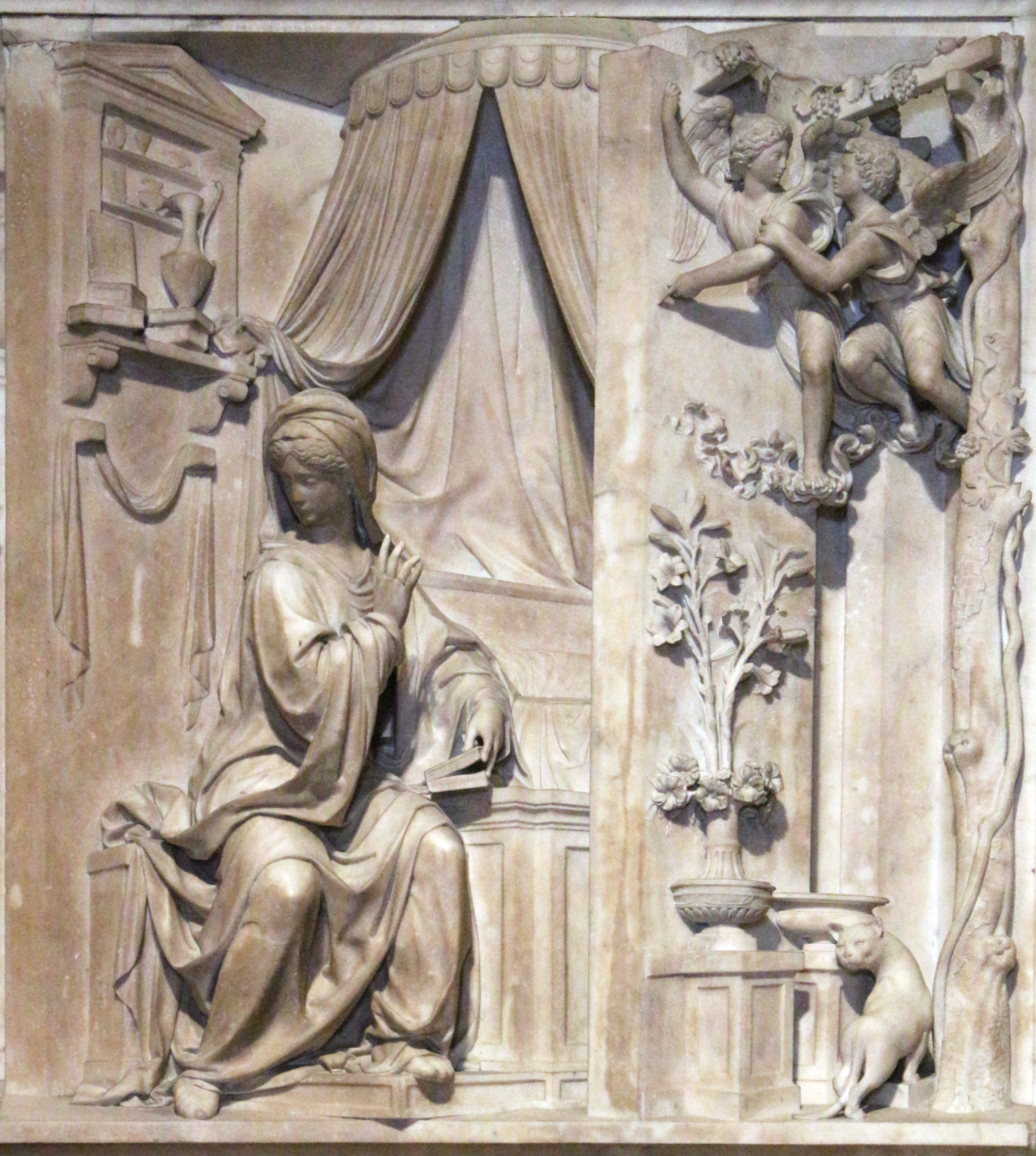 Santa Casa (Loreto)